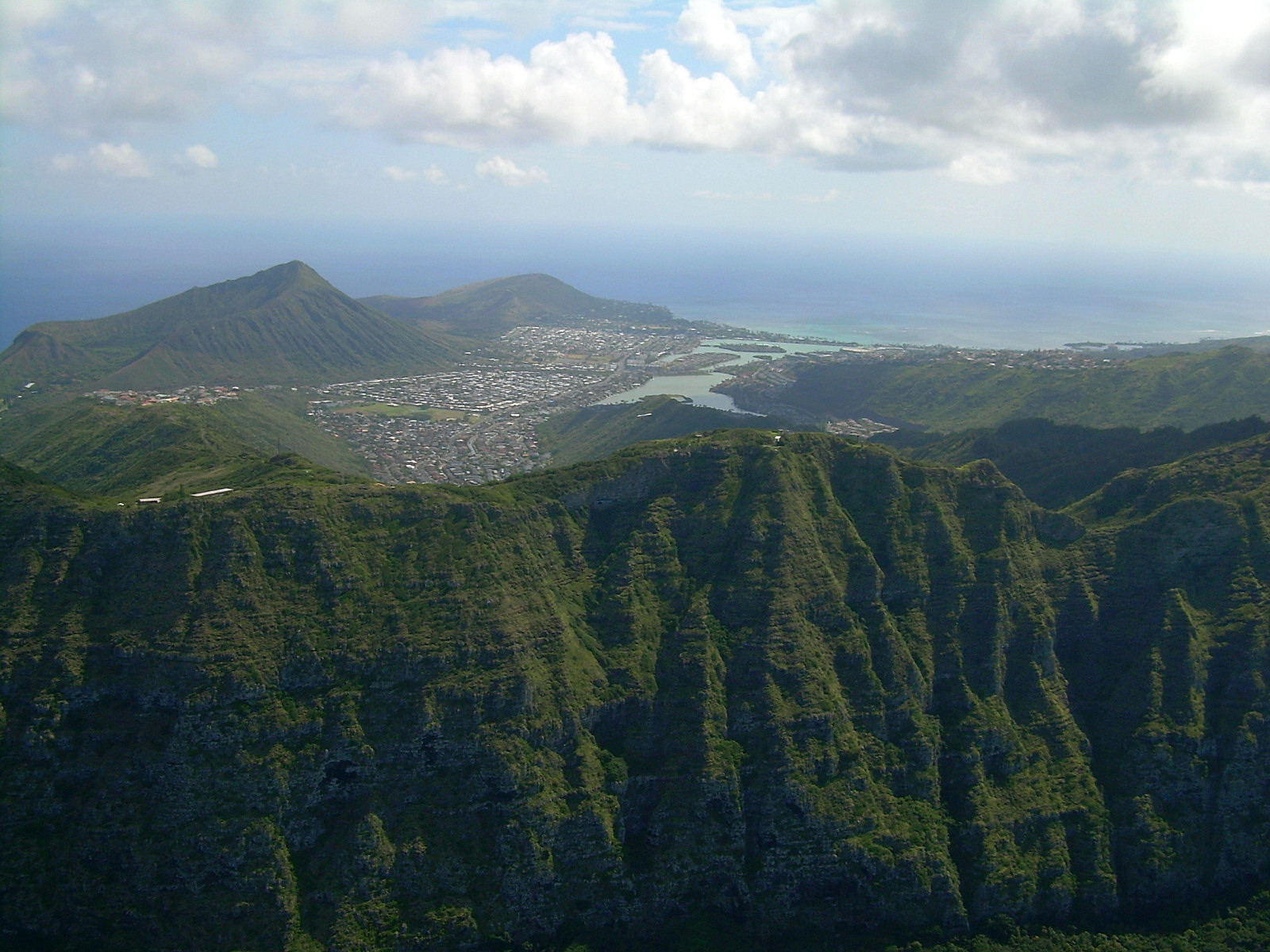 Ko'olau Range on Oahu, with Koko Head Crater in background (to left), and Hanglider launching point in foreground